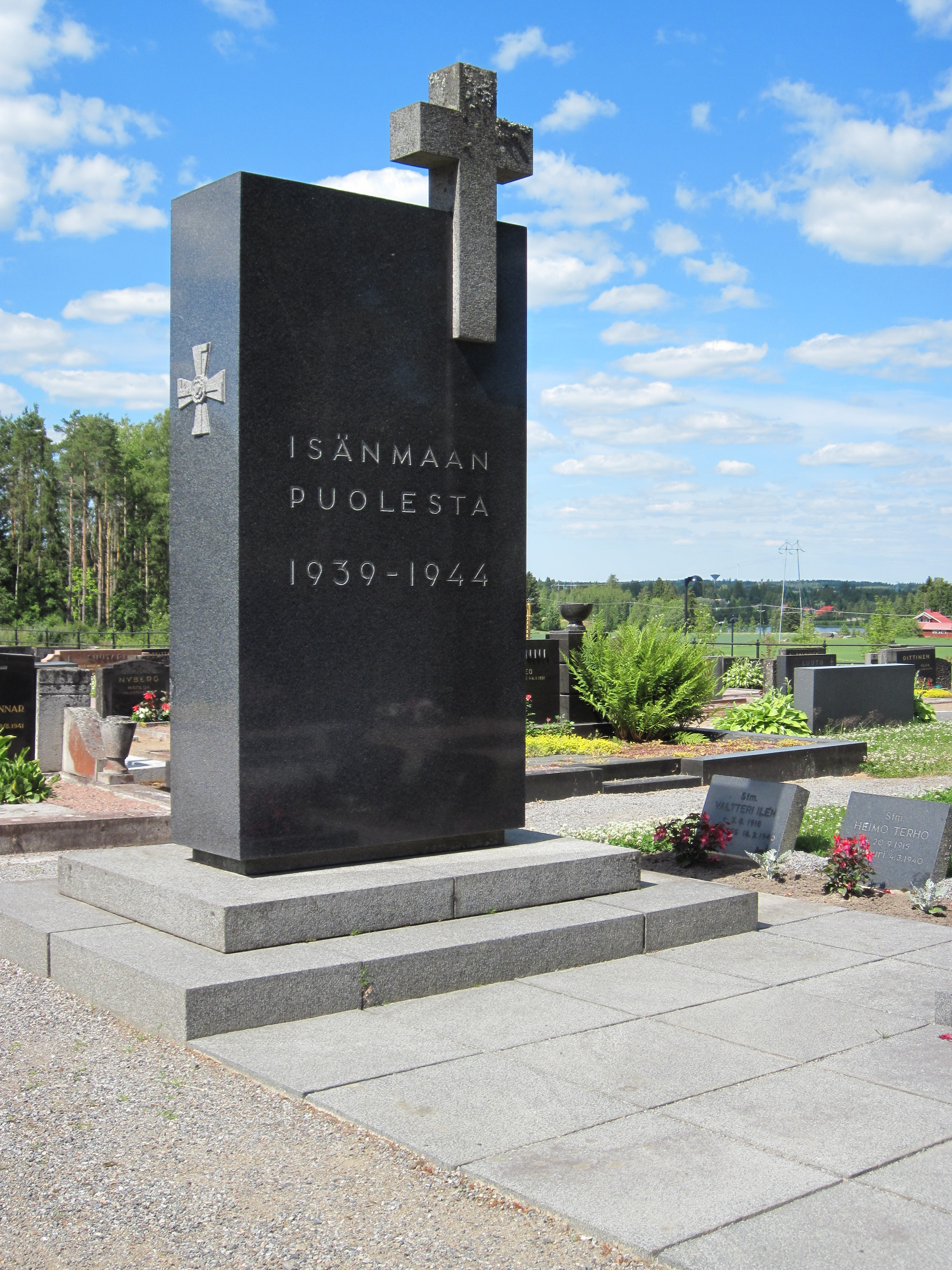 The monument of soldier's graves at Keikyä church in Sastamala, Finland